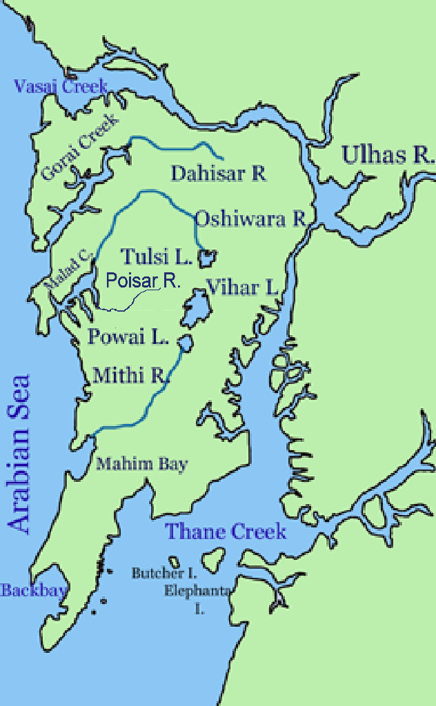 Map showing the rivers and lakes in Mumbai (Bombay), India